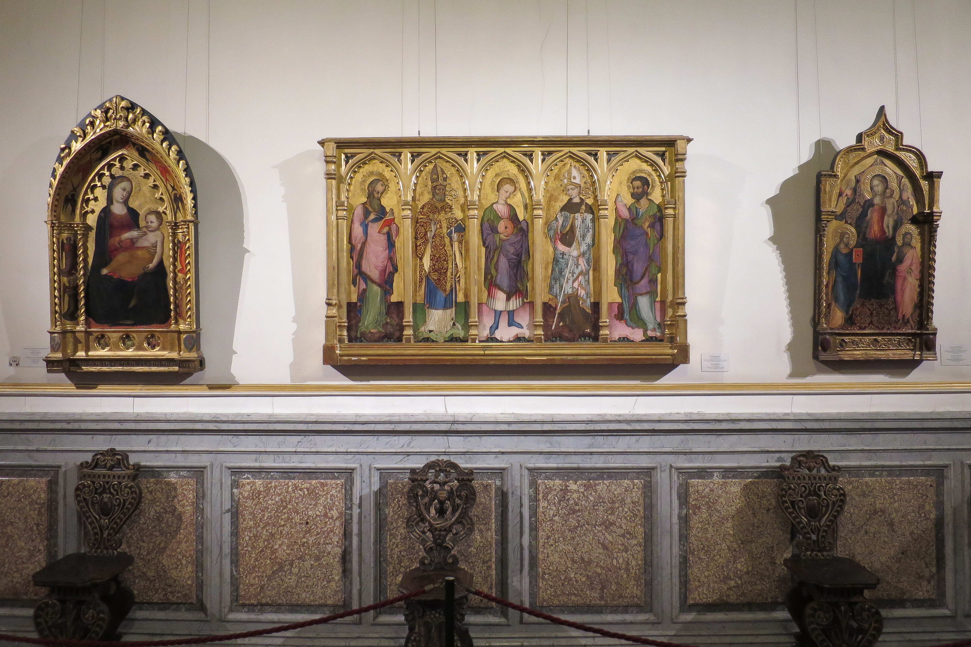 Hermitage Museum - Old Hermitage - 2nd Level - Room 207 - Room of Italian Art of the 13th to Early 15th Century (Saint-Pétersbourg, Russie)